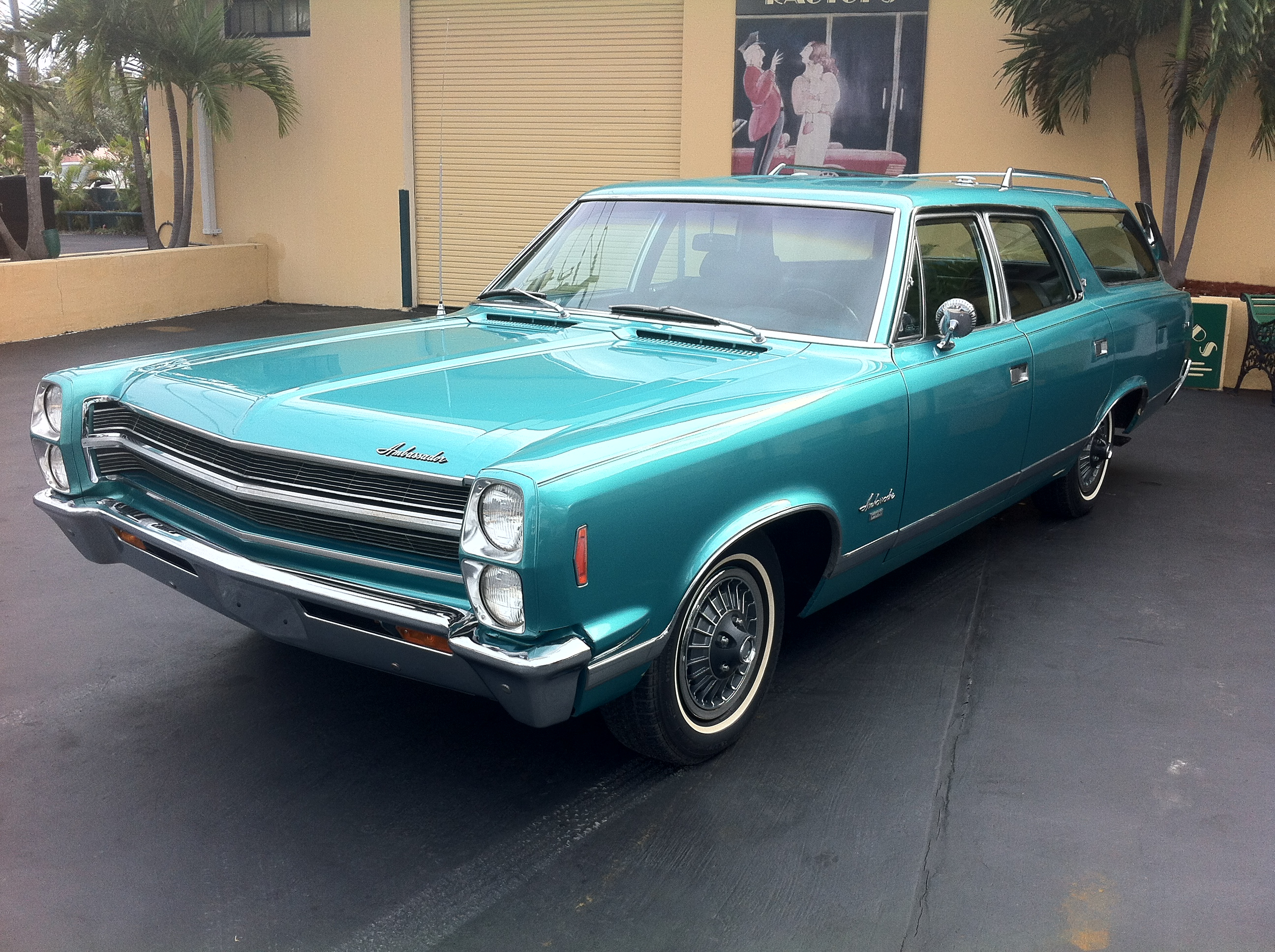 1968 AMC Ambassador, a full-size automobile made by American Motors Corporation. This DPL "Cross Country" station wagon has the 343 CID (5.6 L) V8 engine and factory standard air conditioning, as well as the roof cargo rack and a two-way opening tailgate (drop down for long cargo or opens as a door hinged on the left side). This car has the standard individual adjustable reclining front seats and seating capacity for six adults. It has AMC's optional "Turbocast" full wheel covers. However, the air deflectors mounted on the rear sides are aftermarket accessories to help reduce accumulation of dust/dirt on the tailgate window.